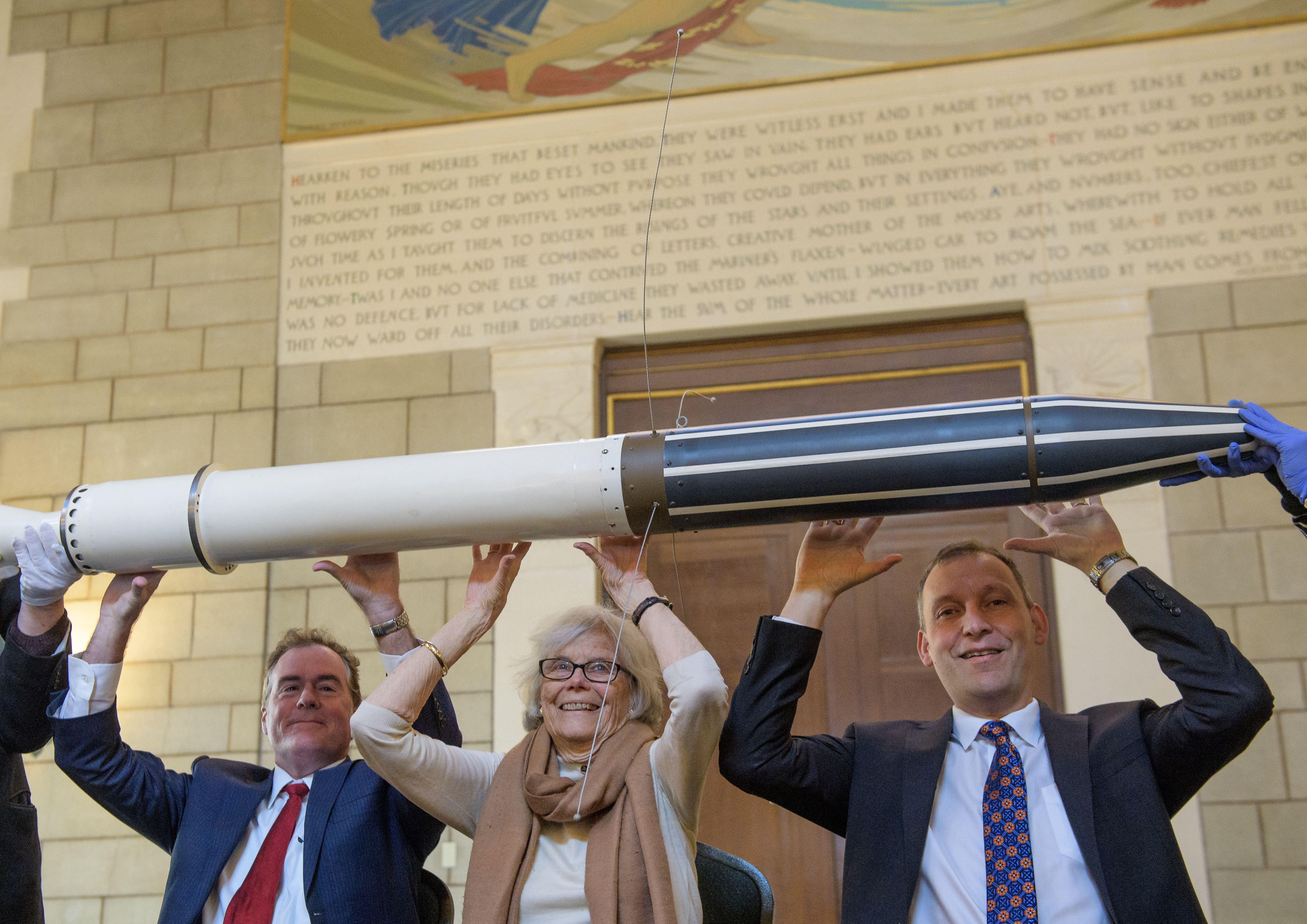 Michael Watkins, Director of NASA's Jet Propulsion Laboratory, left, Susan Finley, who began working at NASA's Jet Propulsion Laboratory in January 1958 as a "human computer", center, and Thomas Zurbuchen, Associate Administrator for NASA's Science Mission Directorate, right, reenact the famous picture of Dr. William H. Pickering, Dr. James A. van Allen, and Dr. Wernher von Braun, hoisting a model of Explorer 1 above their heads at a press conference announcing the satellite's success with a replica of the Explorer 1 satellite during an event celebrating the 60th Anniversary of the Explorer 1 mission and the discovery of Earth's radiation belts, Wednesday, Jan. 31, 2018, at the National Academy of Sciences in Washington. The first U.S. satellite, Explorer 1, was launched from Cape Canaveral on January 31, 1958. The 30-pound satellite would yield a major scientific discovery, the Van Allen radiation belts circling our planet, and begin six decades of groundbreaking space science and human exploration.